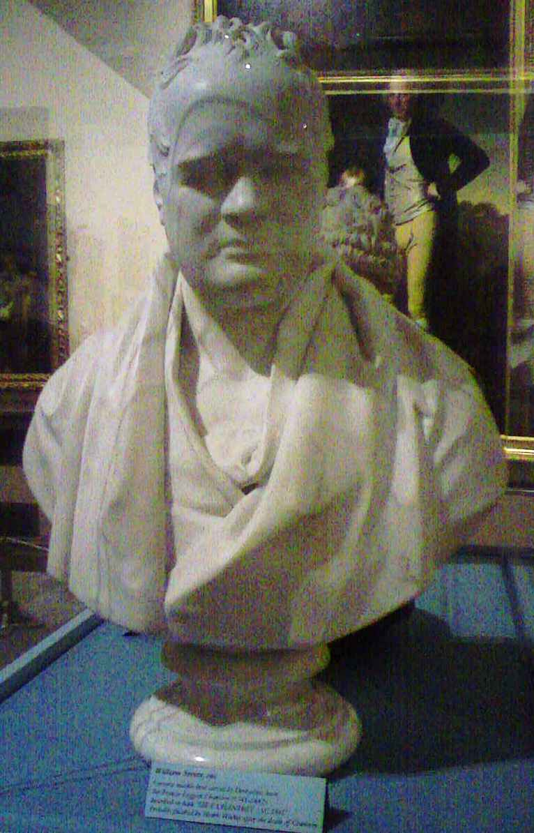 William Strutt sculpture by Francis Leggatt Chantrey